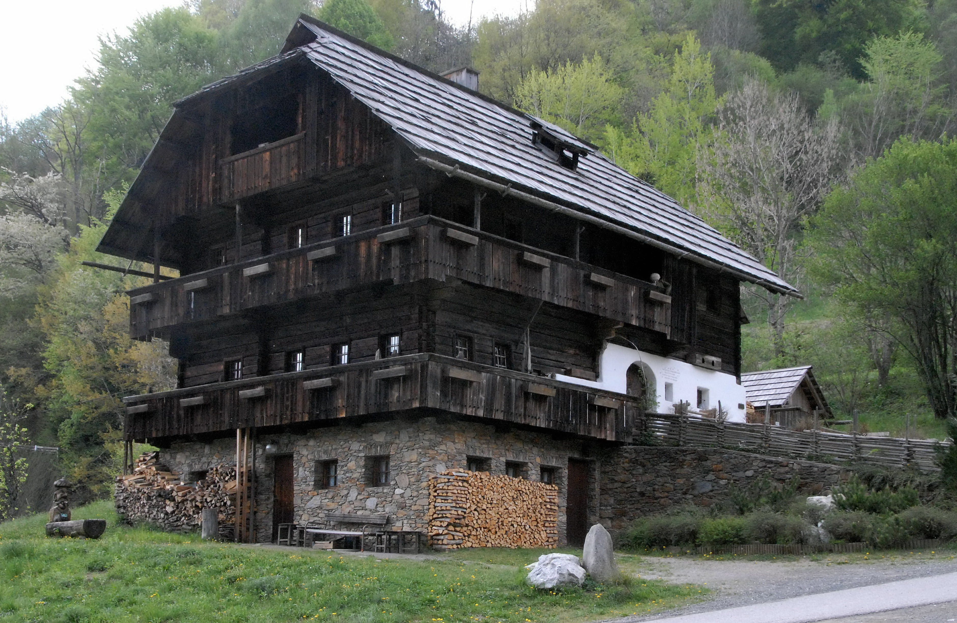 Turkhouse at Kaning in Radenthein, district Spittal an der Drau, Carinthia / Austria / EU.